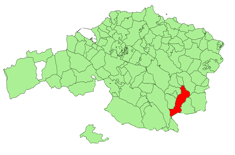 Abadiño municipality in the province of Biscay